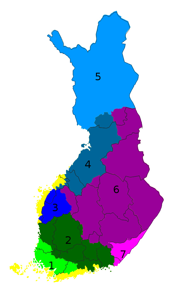 Dialects of Finnish language